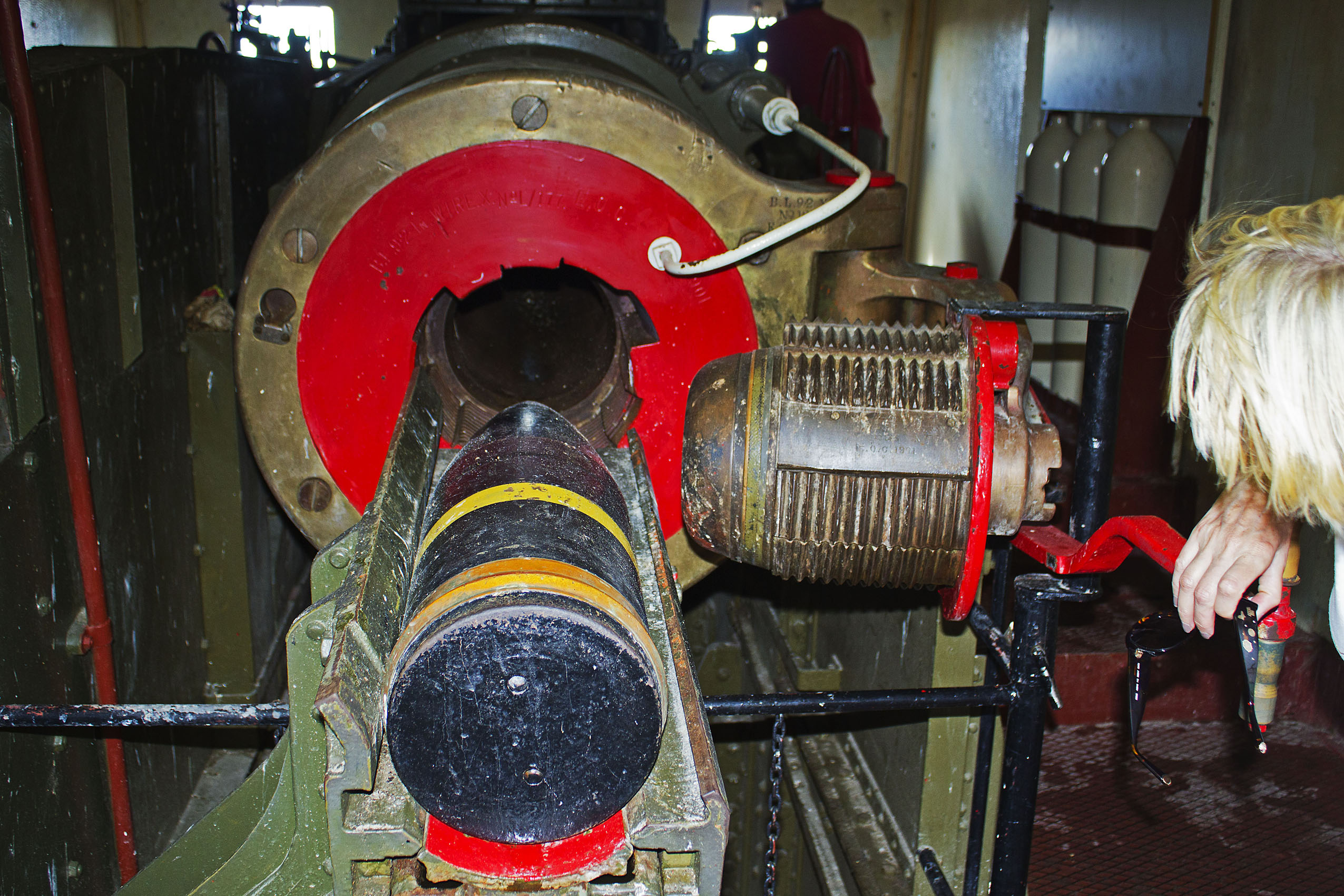 The breech of the H1 9.2 inch gun in the Oliver Hill Battery on Rottnest Island, Western Australia. Barrel No. 177